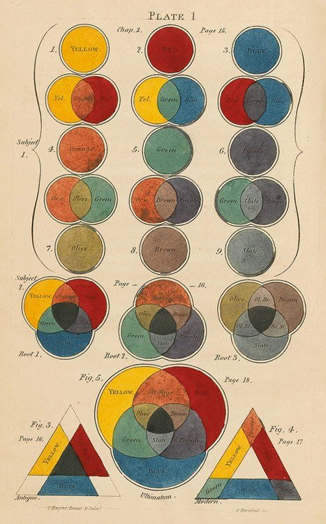 Color diagram Charles Hayter